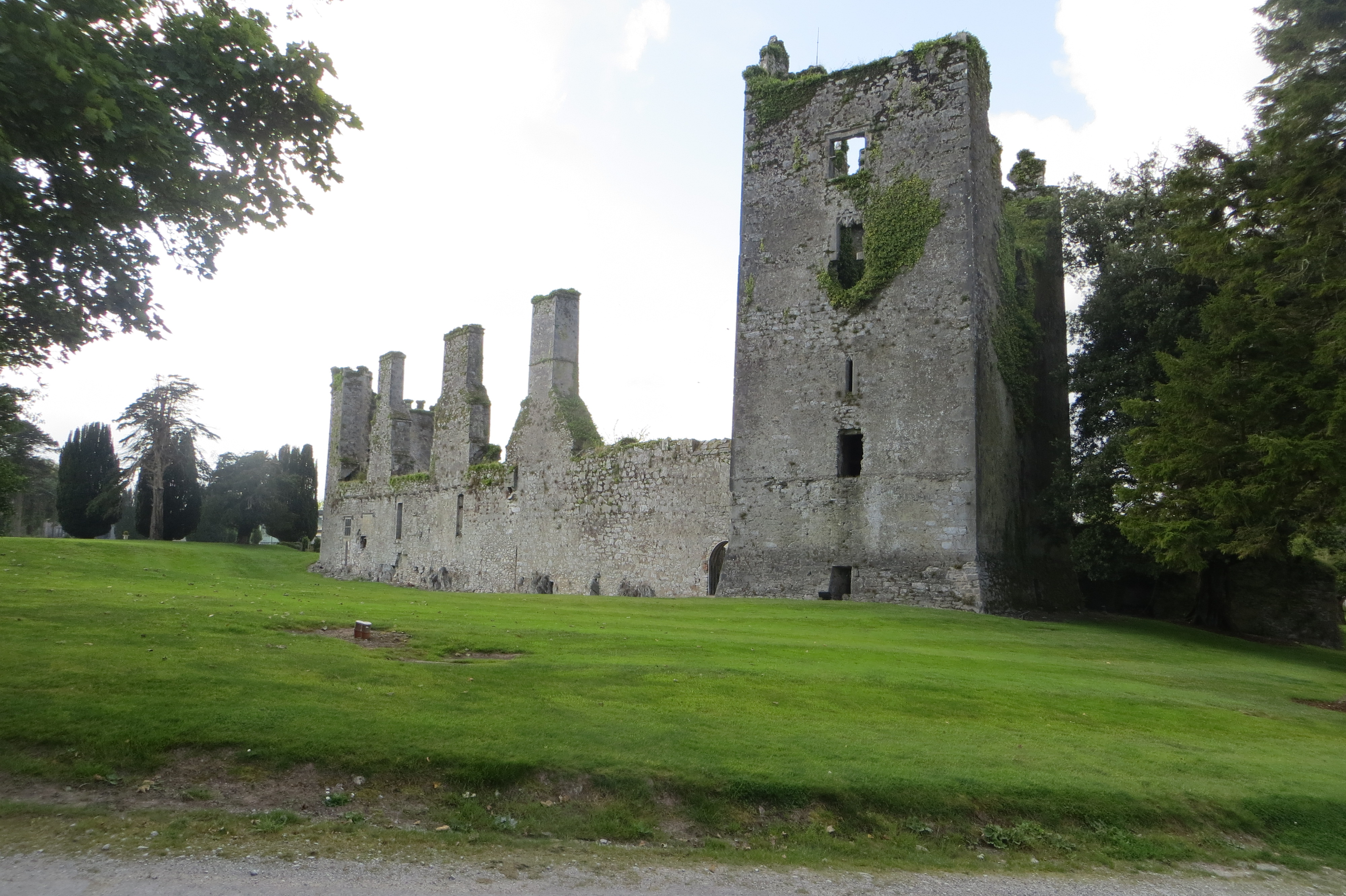 The castle